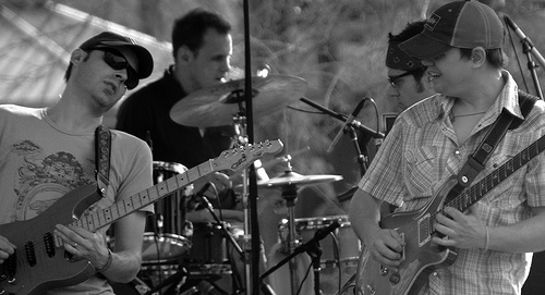 Umphrey's McGee on Earth Day 2007 at the Lincoln Park Zoo in Chicago, Illinois.